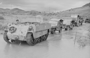 An Oxford carrier from The King's Shropshire Light Infantry (KSLI) tows jeeps across a flooded creek. The carrier is on permanent duty here during the "wet" season. Note the number on the last jeep 31YH73. Korea: Jamestown Line Area. c. August 1952.